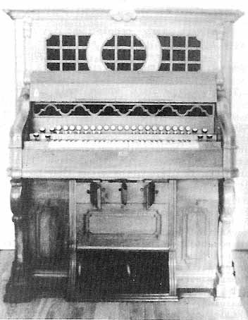 Art harmonium with celesta by the Belgian company Balthasar-Florence, Namur, ca. 1910